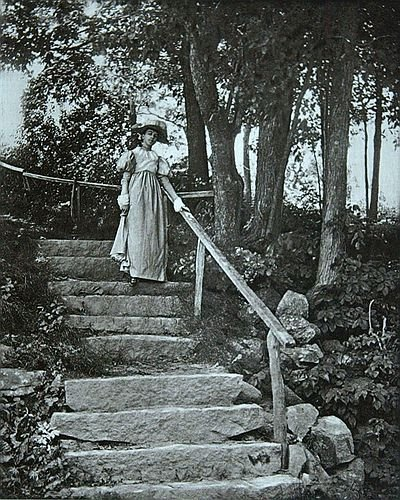 As She Comes Down the Stairs by Rudolf Eickemeyer (1862–1932). The model is Eickemeyer's wife, Isabelle.